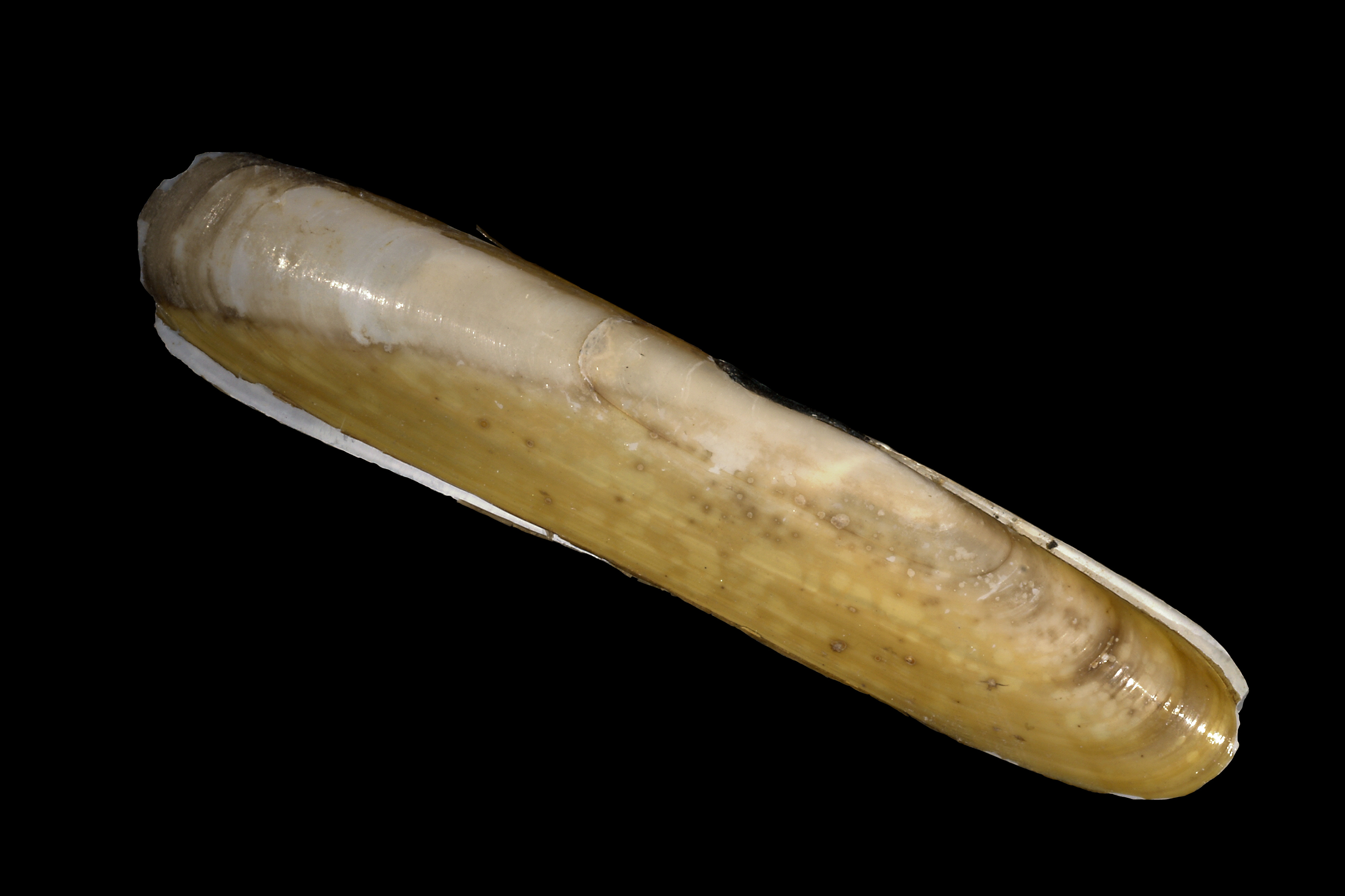 Bean razor clam from the southern North Sea - Belgium.Lab image.